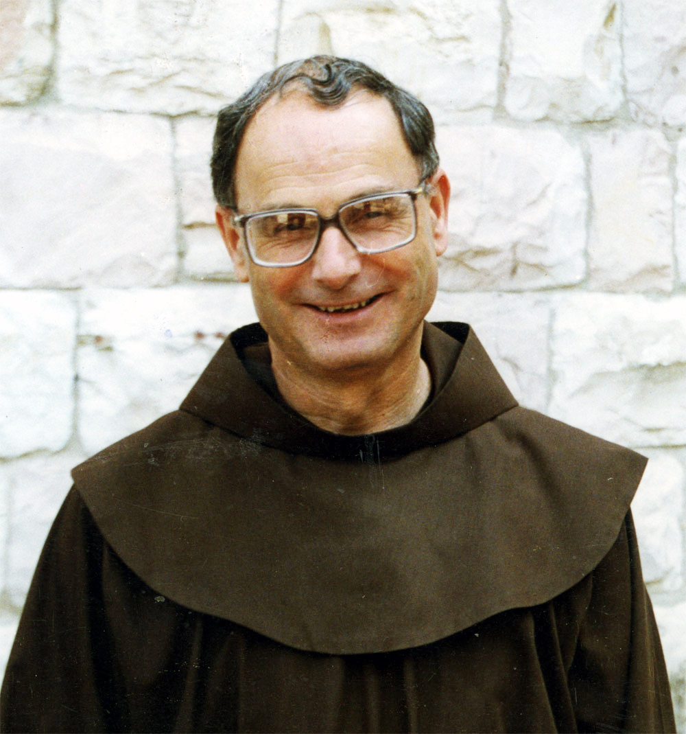 Father Giacomo Bini OFM